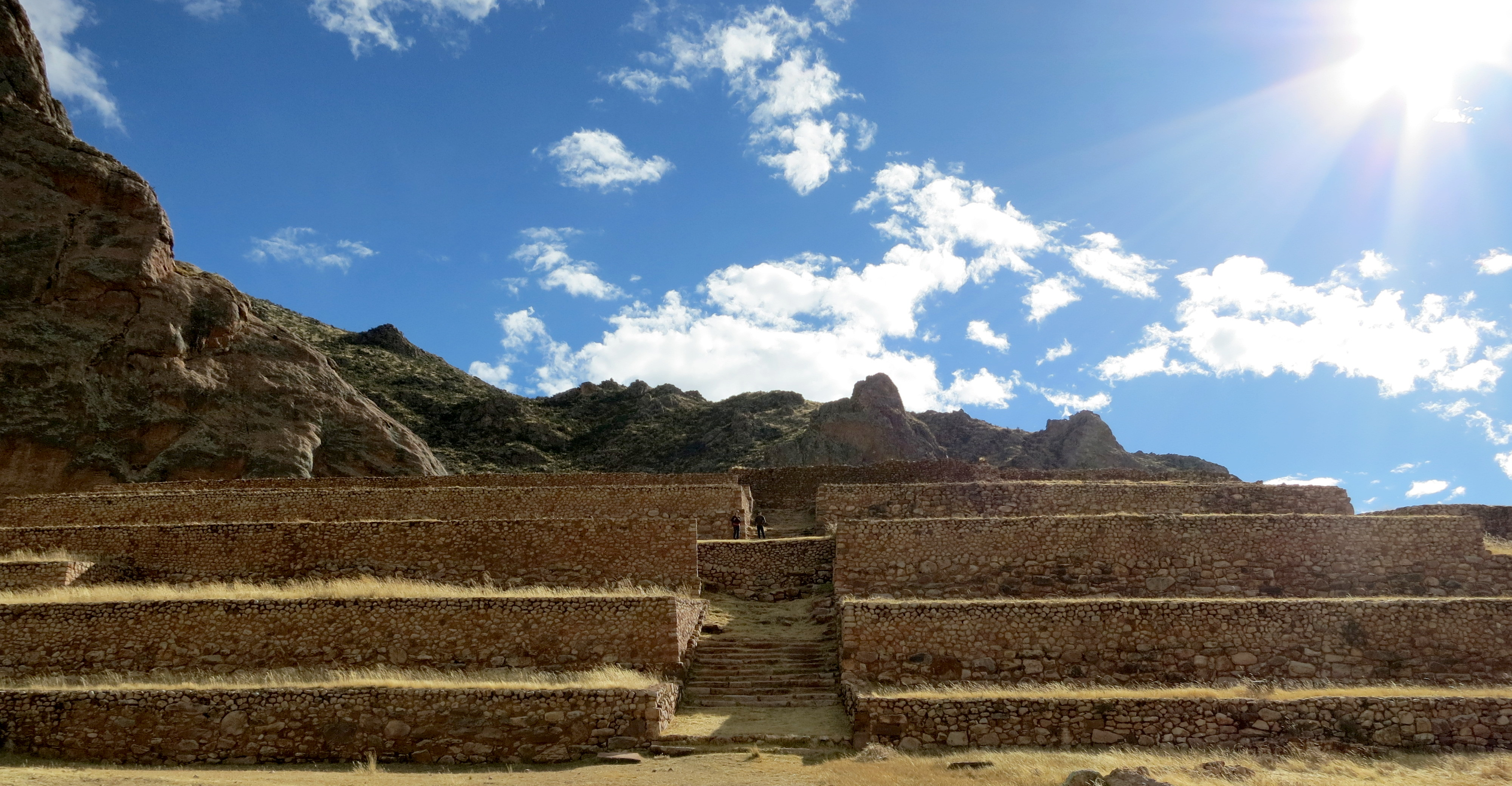 The archaeological site of Pukara was a proto-urban settlement and the major population center of the Titicaca Basin in the 1400 a.C. al 400 d.C before the rise of the Tiwanaku state. This image shows the site's major terraced mound which includes a series of sunken temples on the summit.